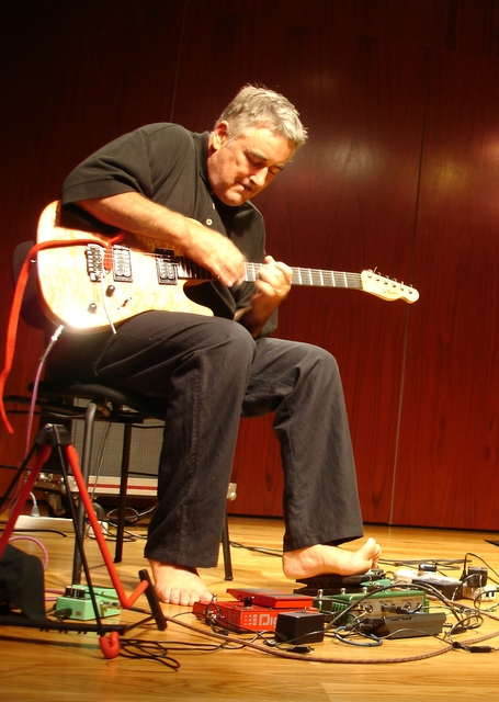 Fred Frith performing with (off camera) Larry Ochs and Le Quan Ninh at the Gulbenkian Foundation in Lisbon, Portugal, 2006-08-05.